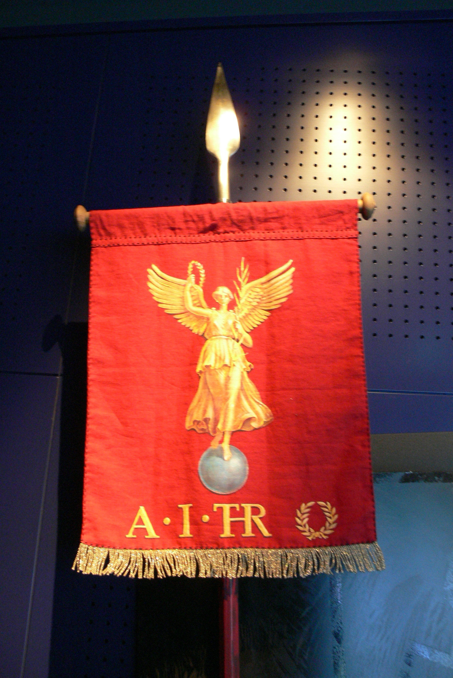 Petronell ( Lower Austria ). Roman Museum: Vexillum of the Ala I Thracum Victrix ( replica ).